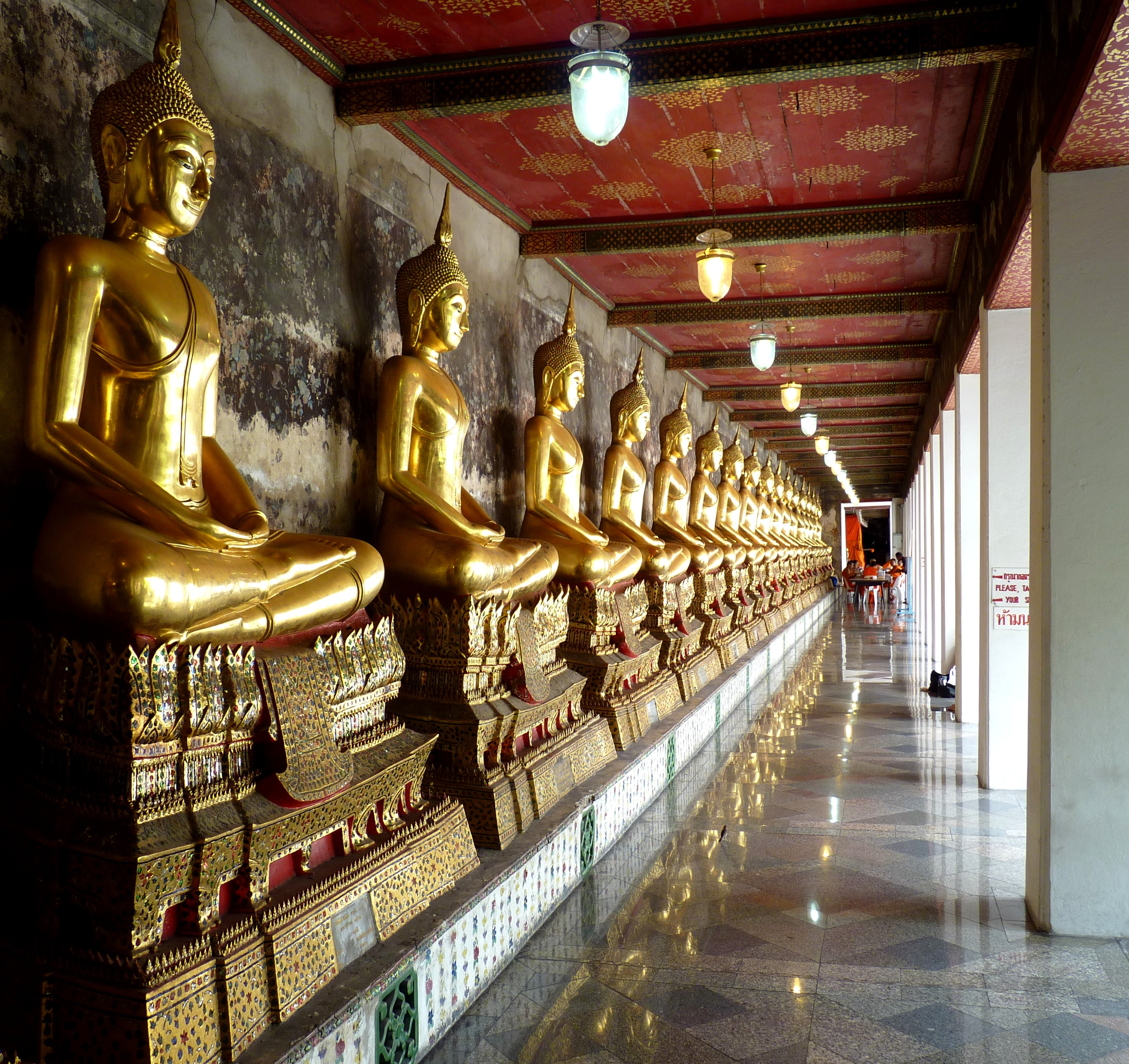 Buddha sculptures in Bangkok.